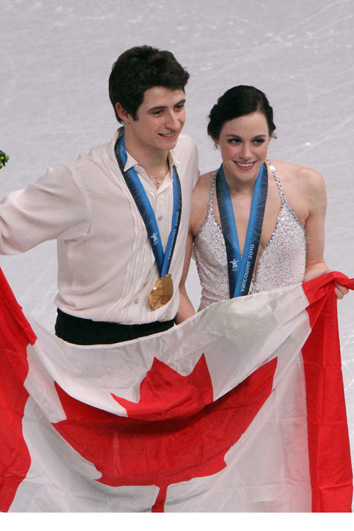 2010 Winter Olympics figure skating - Tessa Virtue and Scott Moir